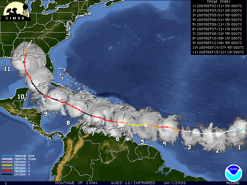 A montage of GOES-12 infrared imagery showing the path of Hurricane Ivan.